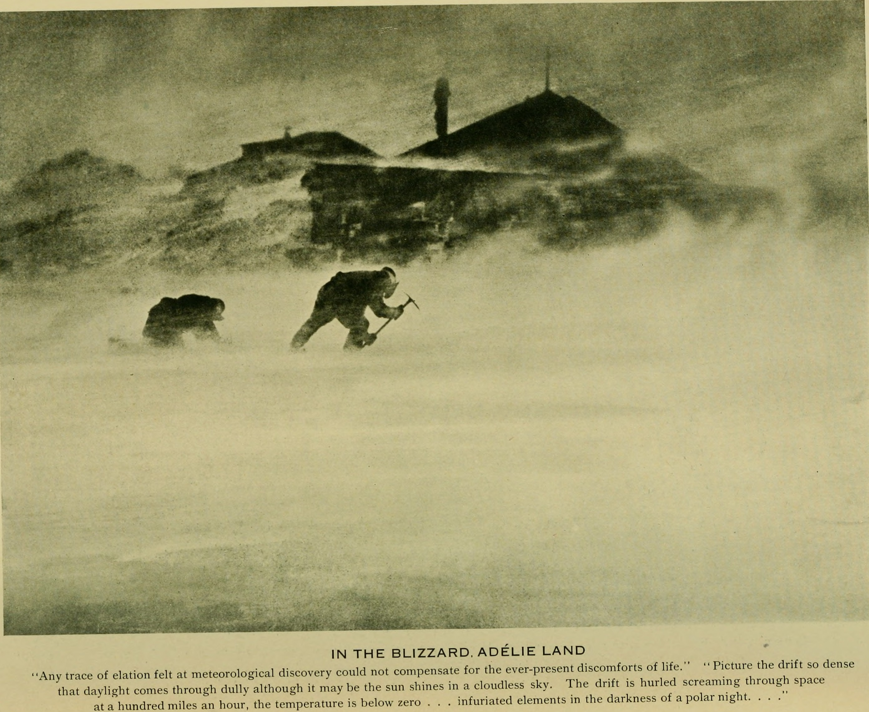 Title: The American Museum journal Year: [1918 c1900-[1918 (c190s) Authors: American Museum of Natural History Subjects: Natural history Publisher: New York : American Museum of Natural History Text Appearing Before Image: ' Text Appearing After Image: '